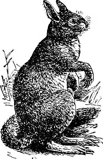 Yarkand hare drawing